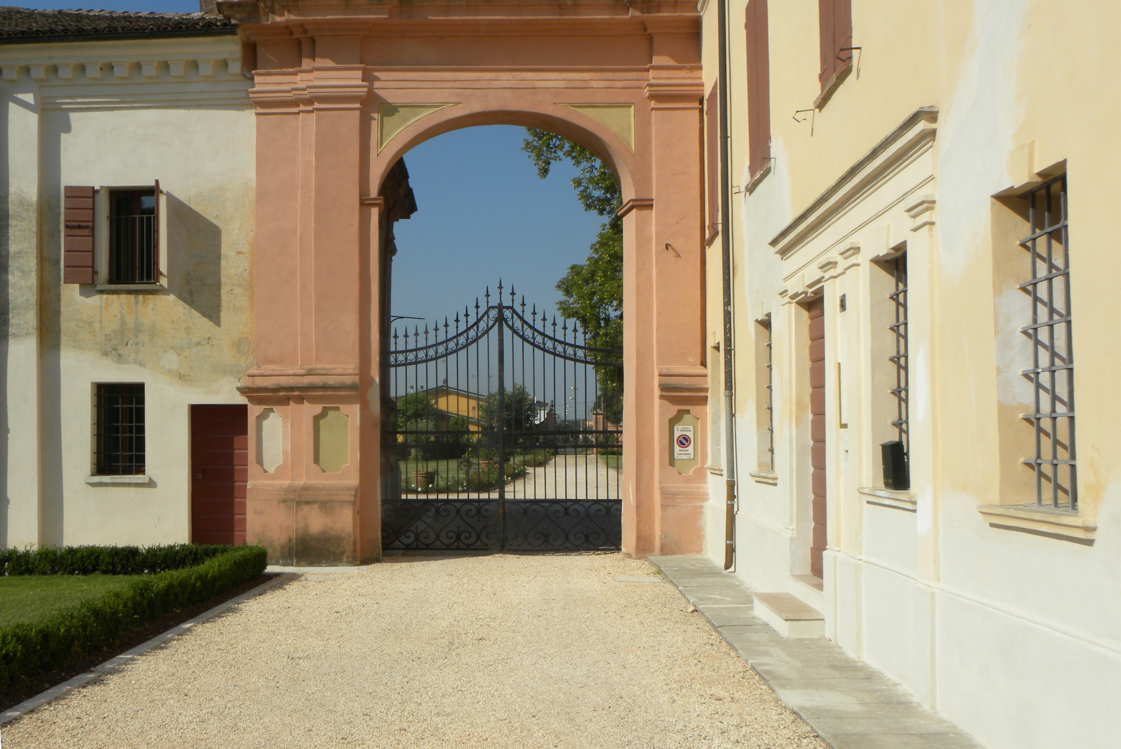 Villa Maraini